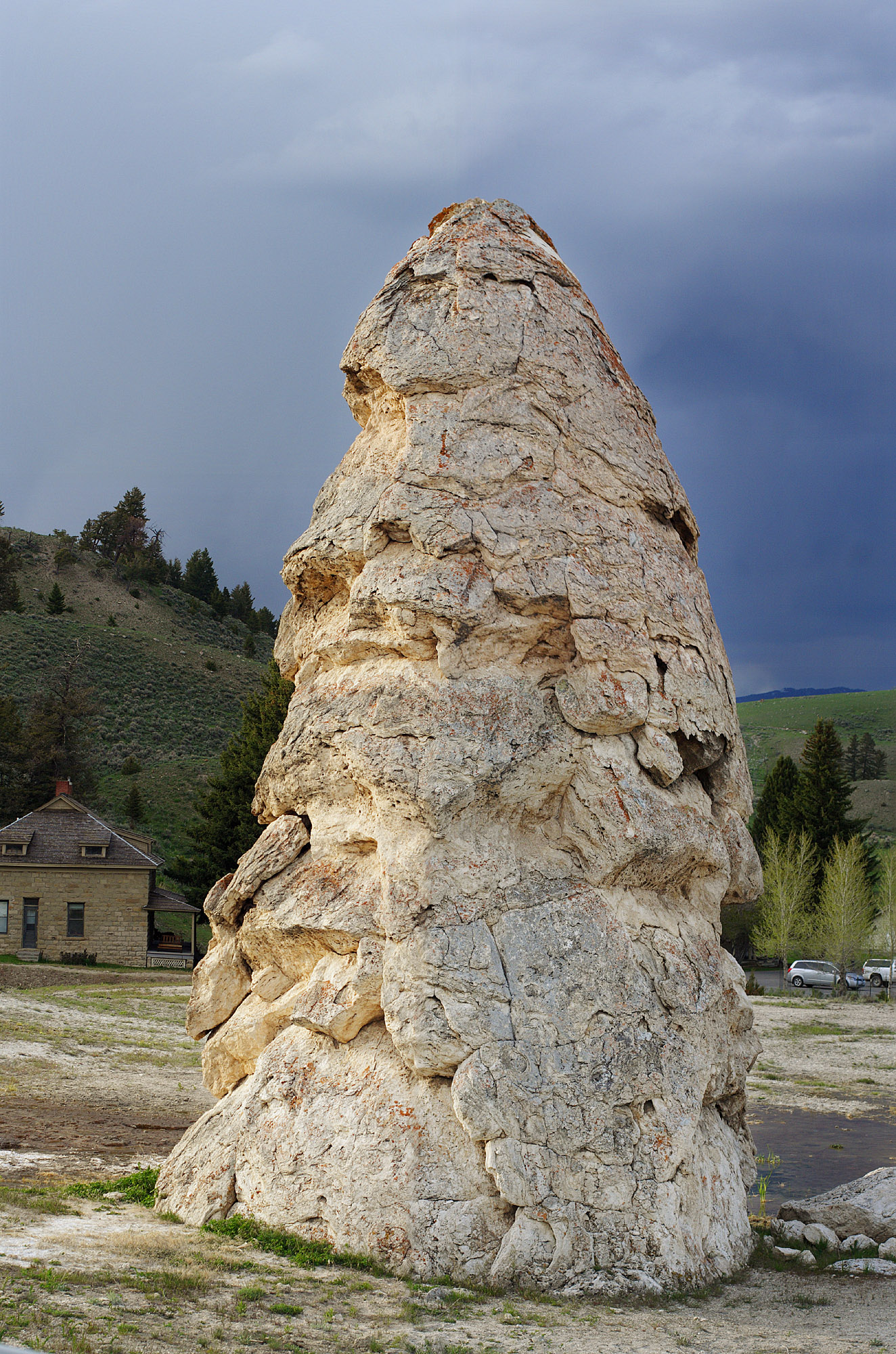 Liberty cap, a mineral cone in Yellowstone National Park, Wyoming, US, built by the deposits of a former hot spring that spouted from the top. (A 2×2 panorama)